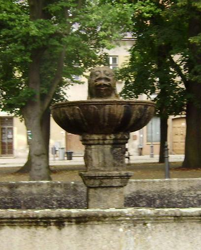 fountain in Polna